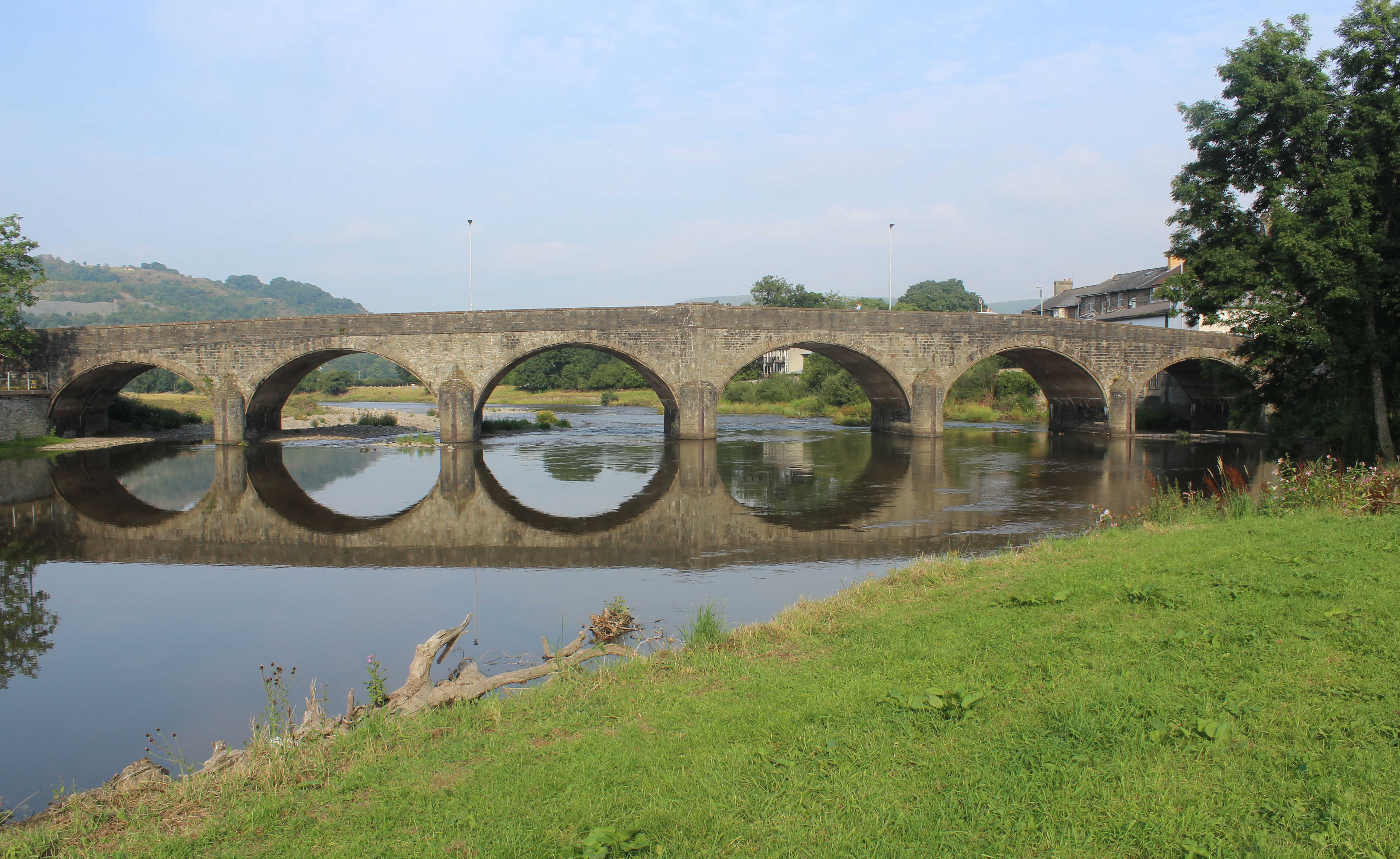 Bridge over the Wye at Builth Wells. This bridge, a Grade II listed building was built in 1779. It carries the A470 (the principal north-south route in Wales) over the Wye, one of Wales' largest rivers.